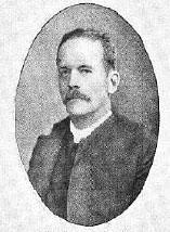 Picture of Robert Warren Stewart